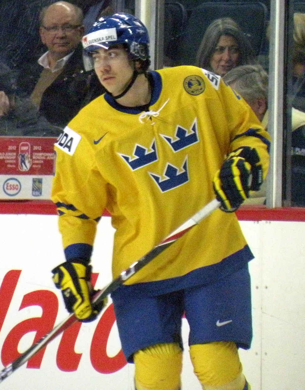 Swedish forward Mika Zibanejad prior to the gold medal game of the 2012 World Junior Hockey Championships at Calgary, Alberta, Canada.